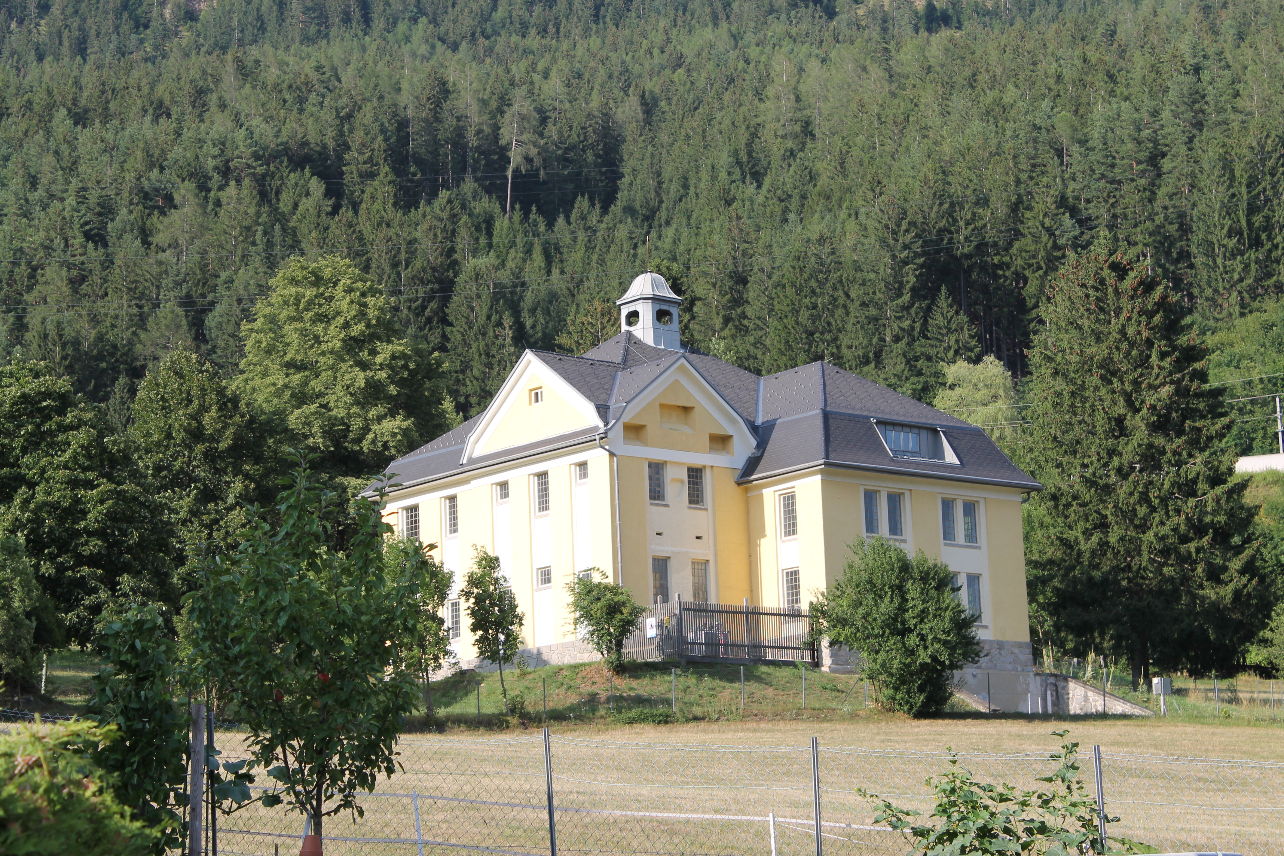 Hydroelectric power station Mühldorf, part of the powerplants Reißeck-Kreuzeck, Austria.